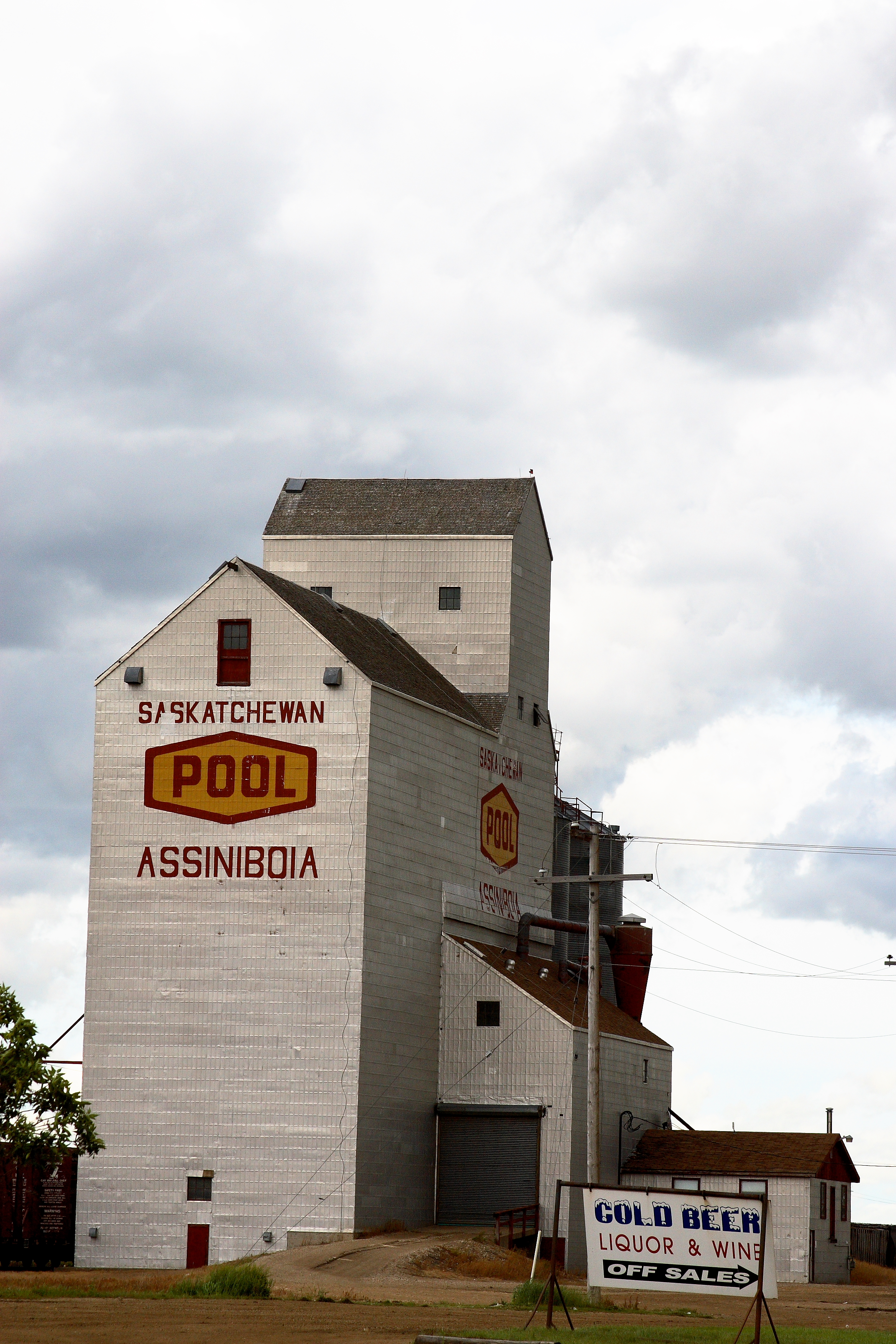 Saskatchewan Wheat Pool grain elevator in the town of Assiniboia, Saskatchewan, Canada.